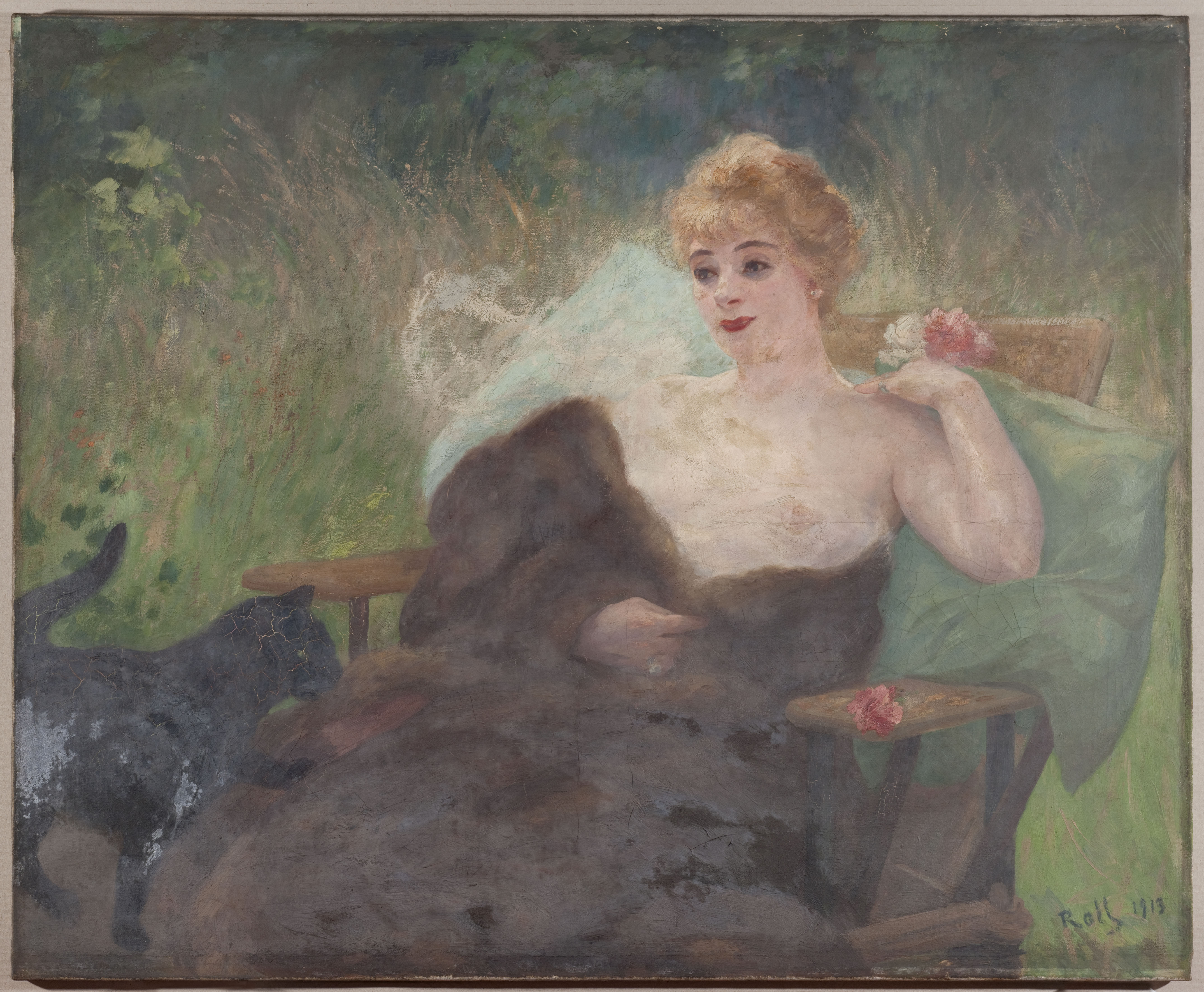 Amélie Diéterle is a French actress born in Strasbourg on February 20, 1871 and died in Cannes on January 20, 1941. She was legitimated in Paris in 1892 by Captain Louis Laurent, Knight of the Legion of Honor. Amélie Diéterle married in Vallauris on June 16th, 1930 with André Simon (1877-1965). Amélie Diéterle plays mainly at the Théâtre des Variétés in Paris during the Belle Époque.